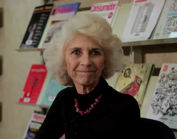 Paloma Woolrich in Semana i Tecnológico de Monterrey